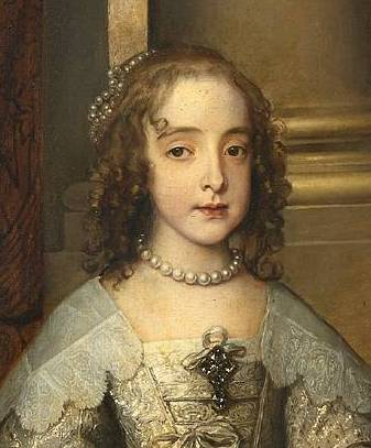 Fragment of a painting by Antoon van Dijck, 1641 This file has been extracted from another file: Anthonis van Dyck 036.jpg